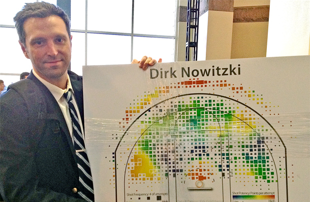 Kirk Goldsberry with one of his shot charts